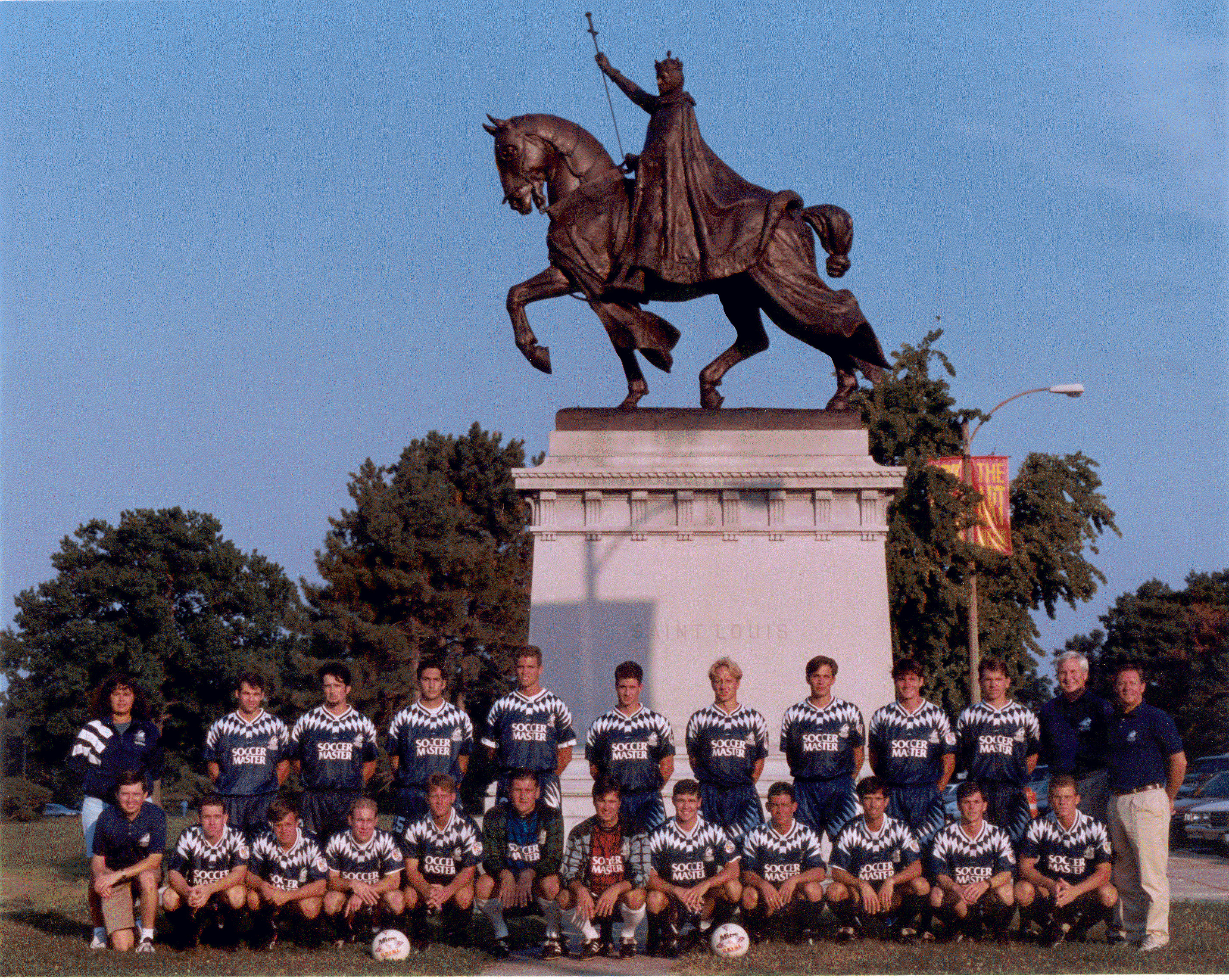 St.louis knights soccer club